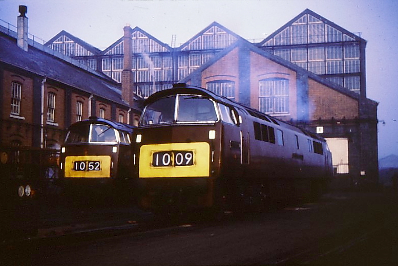 Ex Works D1052 and D1009